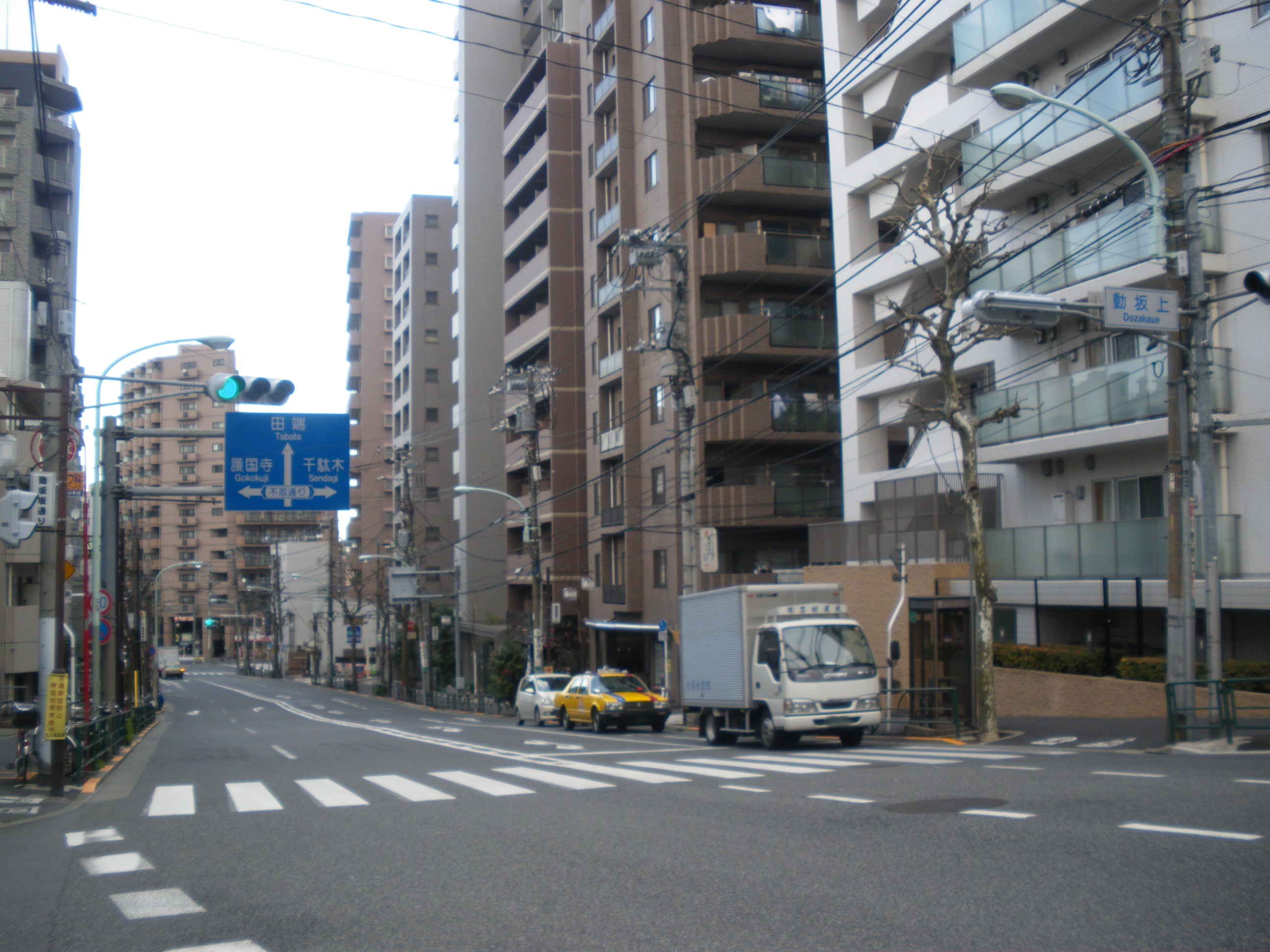 A photo of Dozaka Slope,Honkomagome,Bunkyo-ku,Tokyo,Japan.